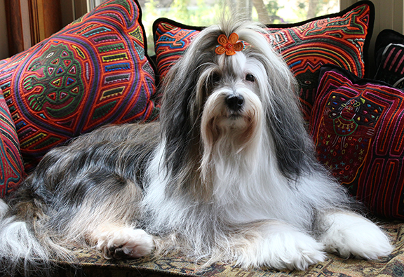 Dali is a Tibetan terrier